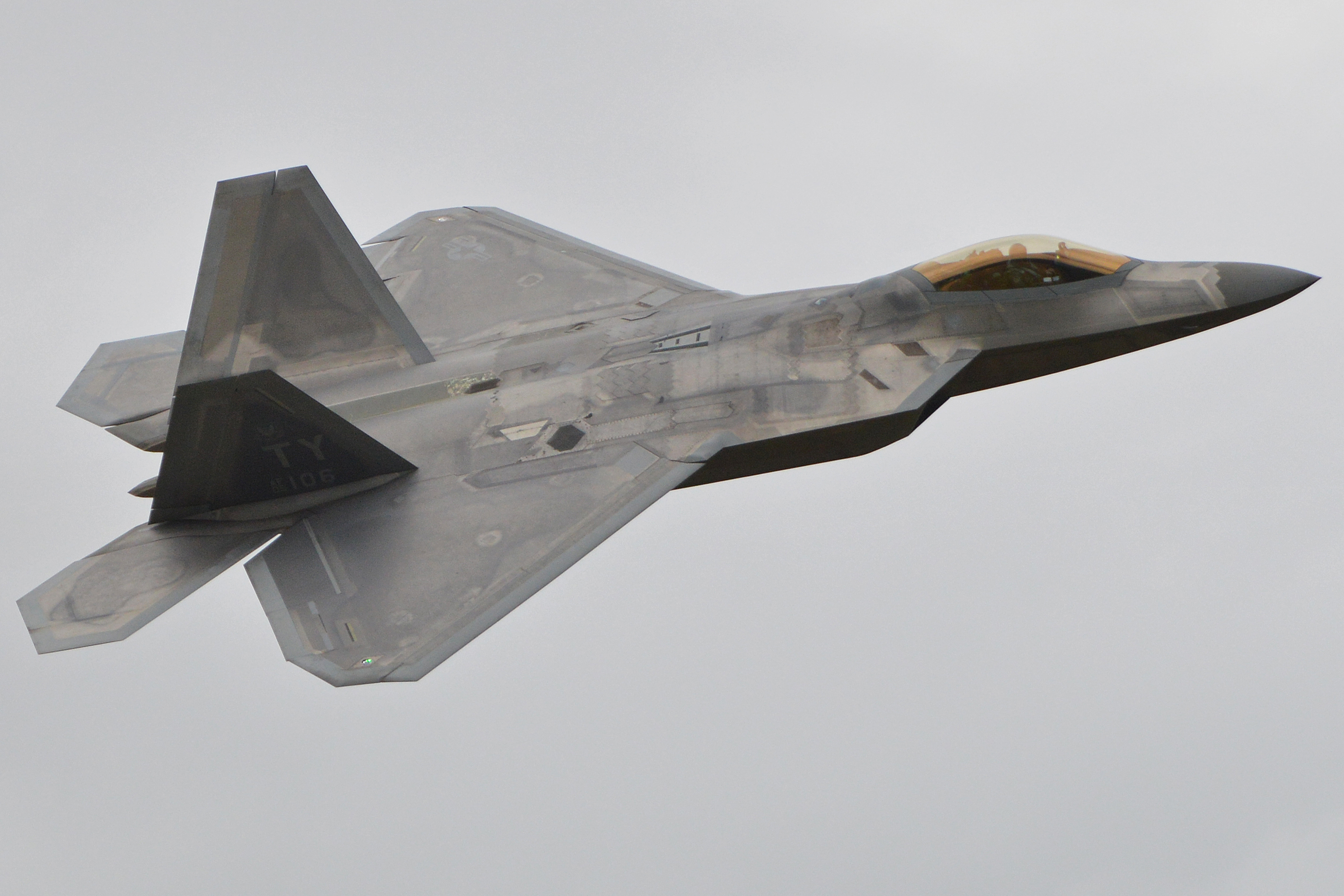 c/n 4106. Operated by the 95th Fighter Squadron, part of the 325th Fighter Wing based at Tyndall AFB, Florida. Seen climbing out during a deployment to RAF Lakenheath, Suffolk, UK. 22-4-2016